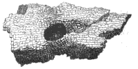 Sketch of alleged footprint of King Arthur's dog Cavall. A stone from Carn Cavall with indentation "thought to resemble the print of a dog's foot"